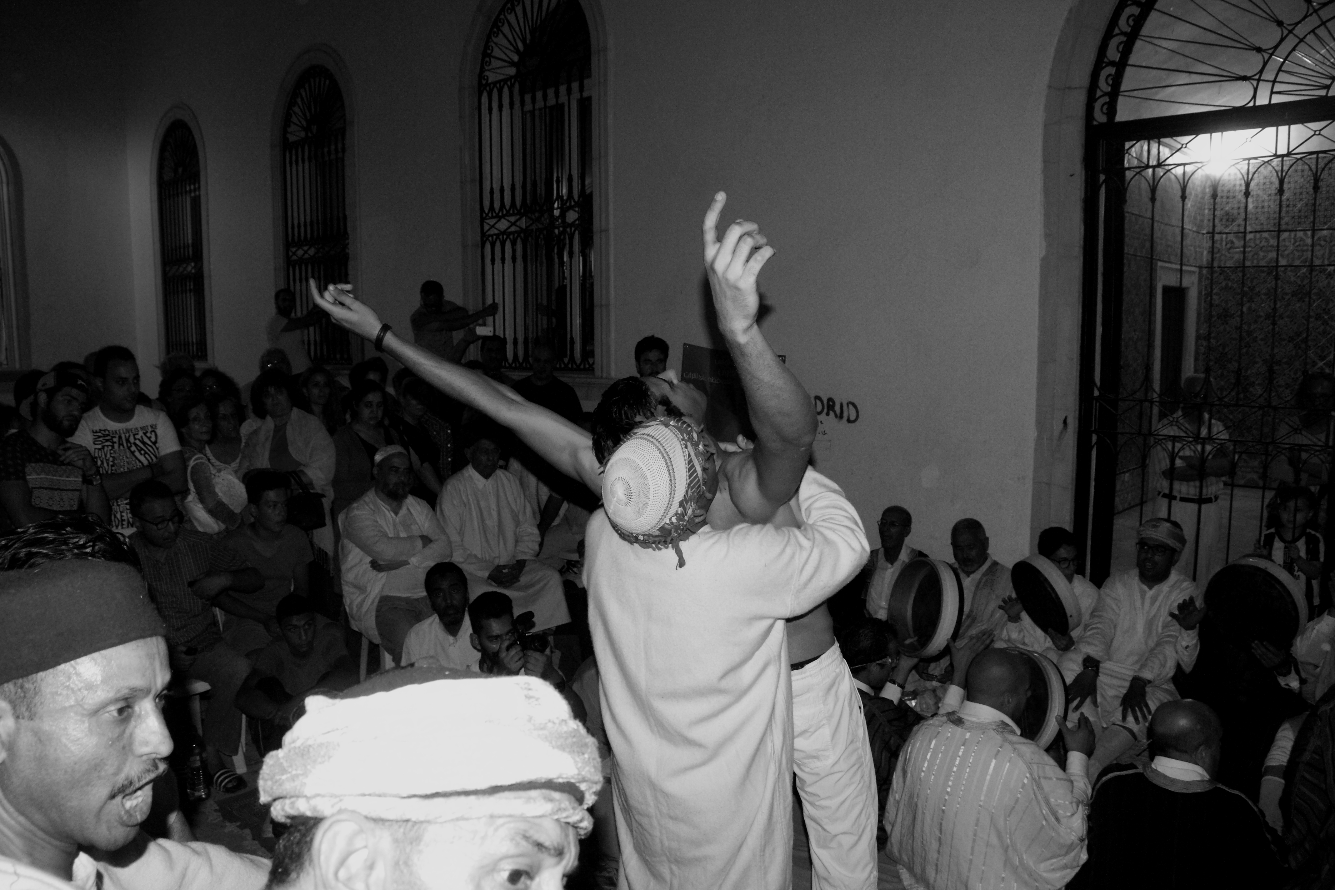 SONY DSC This is an image of music and dance from Tunisia